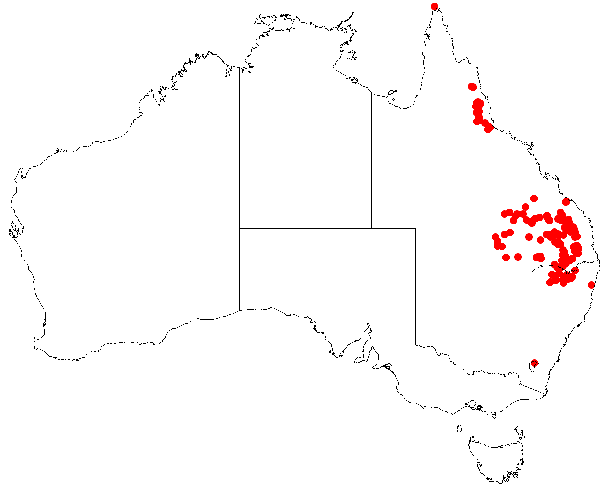 Allocasuarina inophloia occurrence data from Australasian Virtual Herbarium downloaded 4 July 2018